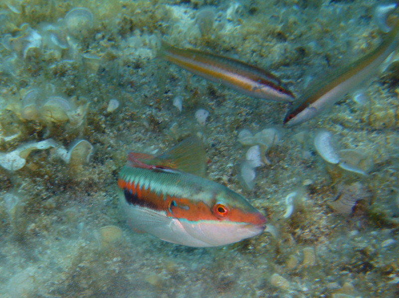 Coris julis, Croatia